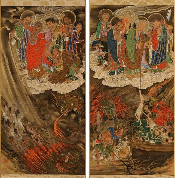 The Six Realms, Hell, from Five Hundred Arhats by Kano Kazunobu, Scrolls 21 & 22